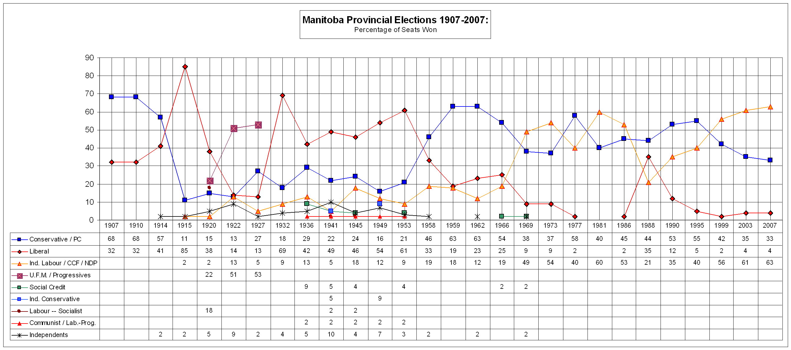 Manitoba general election results from 1907 to 2007, shown as a percentage of total seats in the Legislative Assembly won by each party (or independent MLA). Français cadien: Résultats des élections generales en Manitoba de 1907 a 2007.